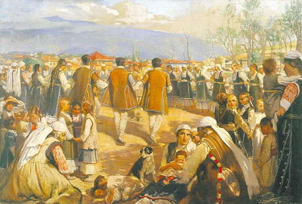 Ivan Mrkvicka. "Shoppe dance".